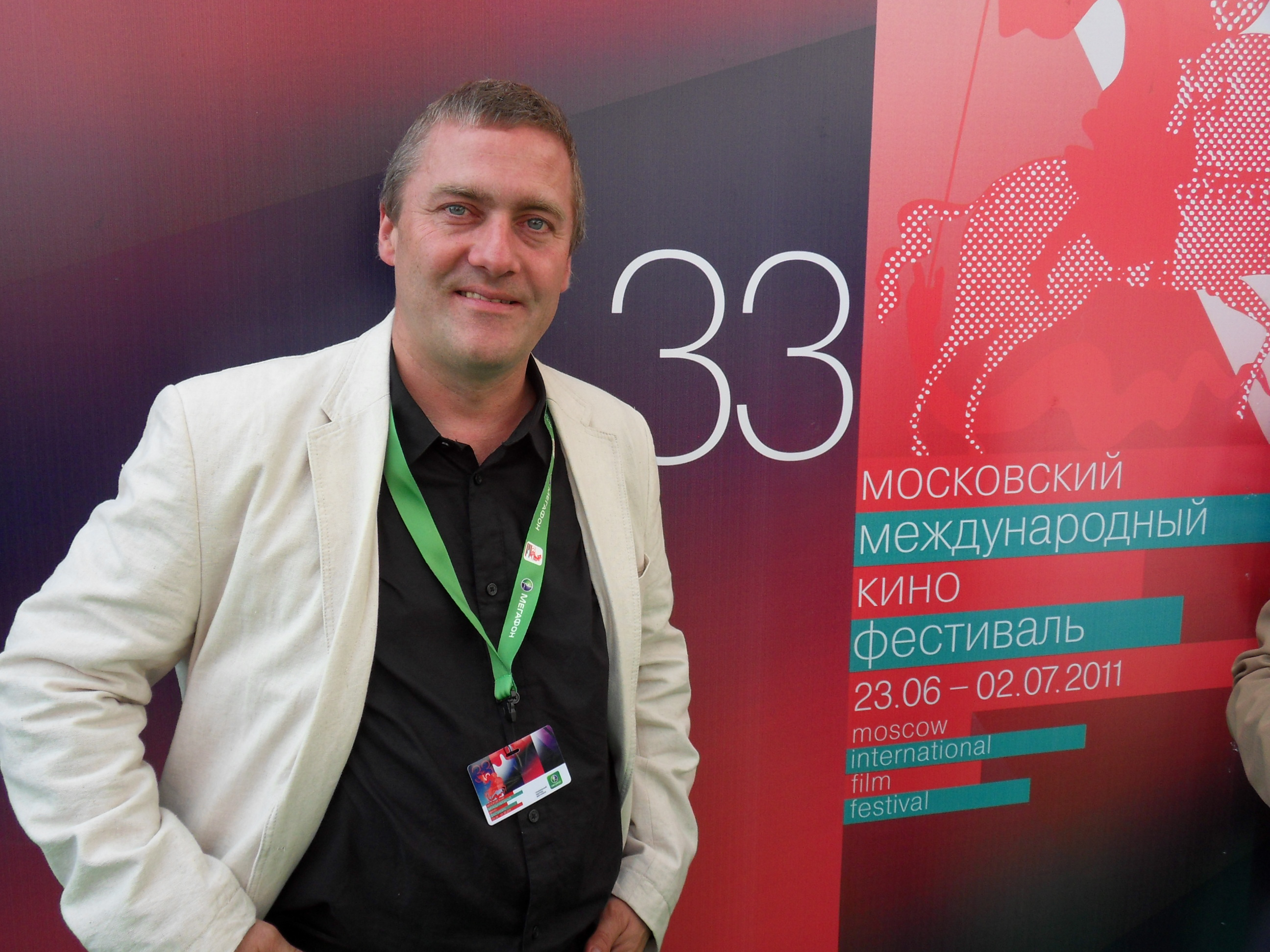 Director and author Ludwig Wüst at the final gala of the 33rd Moscow International Film Festival (2011), where he presented his film TAPE END.